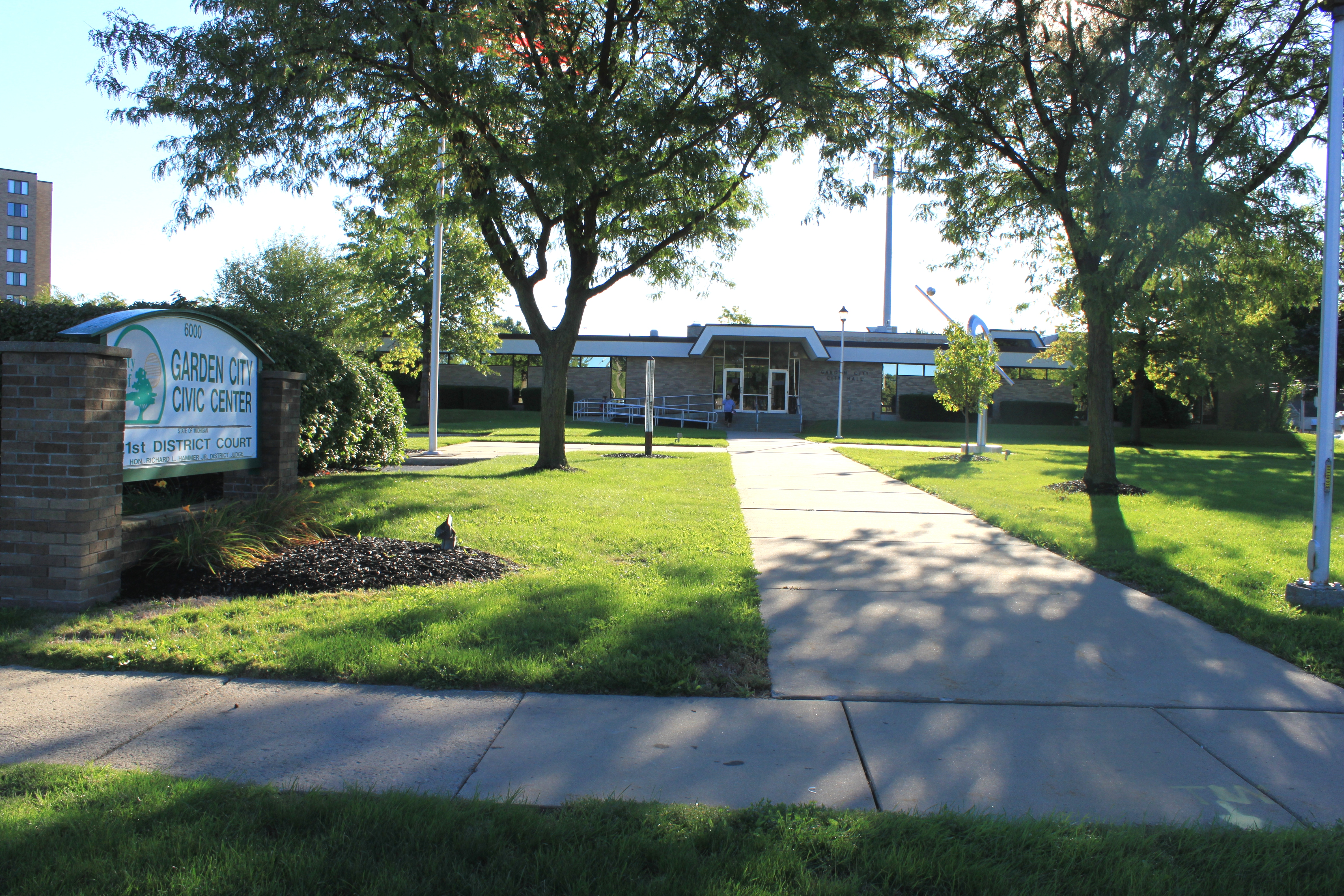 Garden City City Hall, 6000 Middlebelt Road, Garden City, Michigan